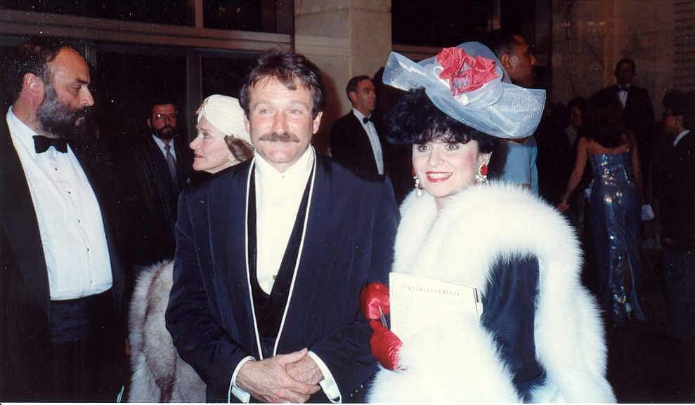 Actor Robin Williams and a Polish journalist Yola Czaderska-Hayek at 62nd Academy Awards (1990)